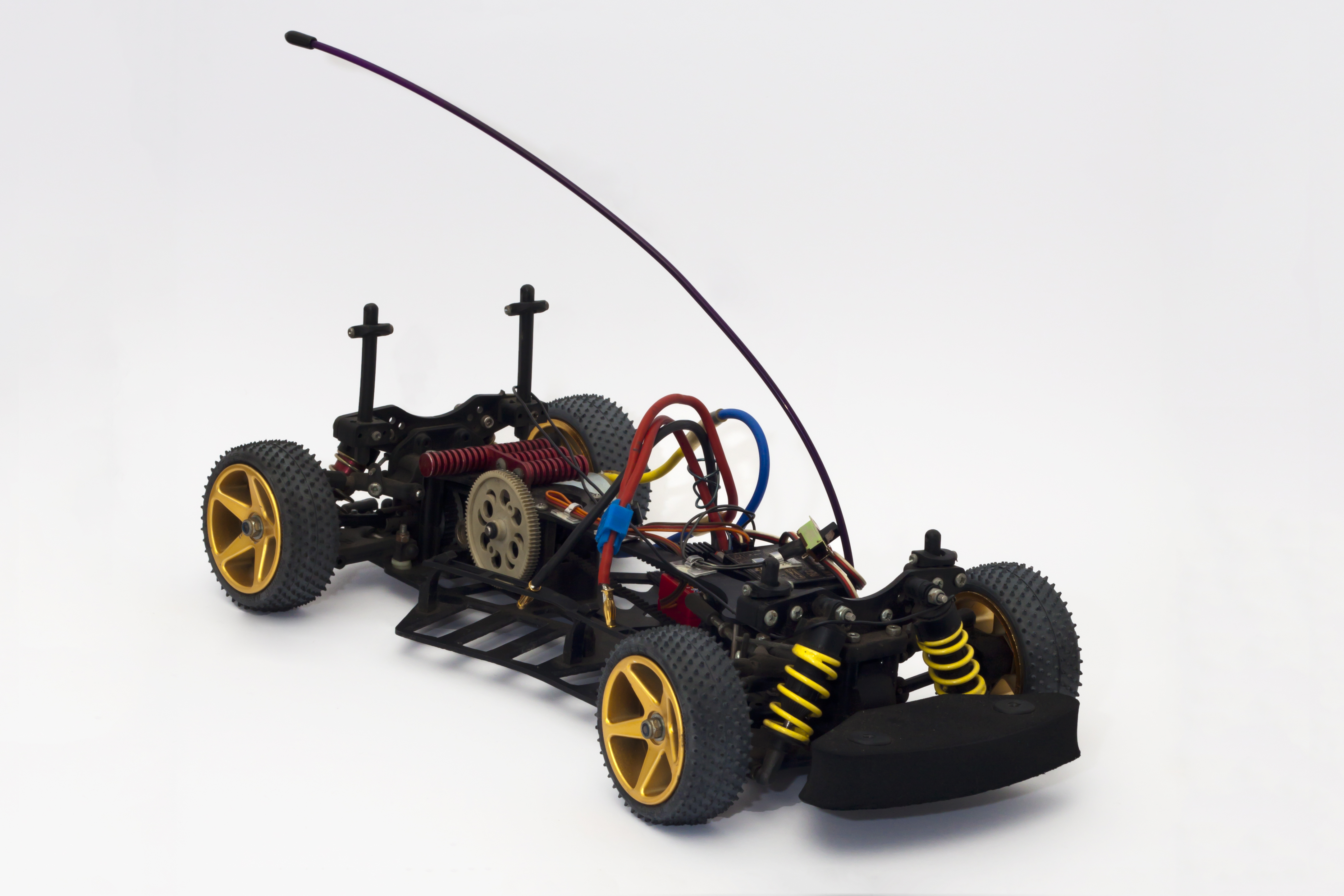 Detailed shot of the succesfull RC Racing car Shumacher SST2000. Image Shows car without battery pack installed to allow for a clearer view.